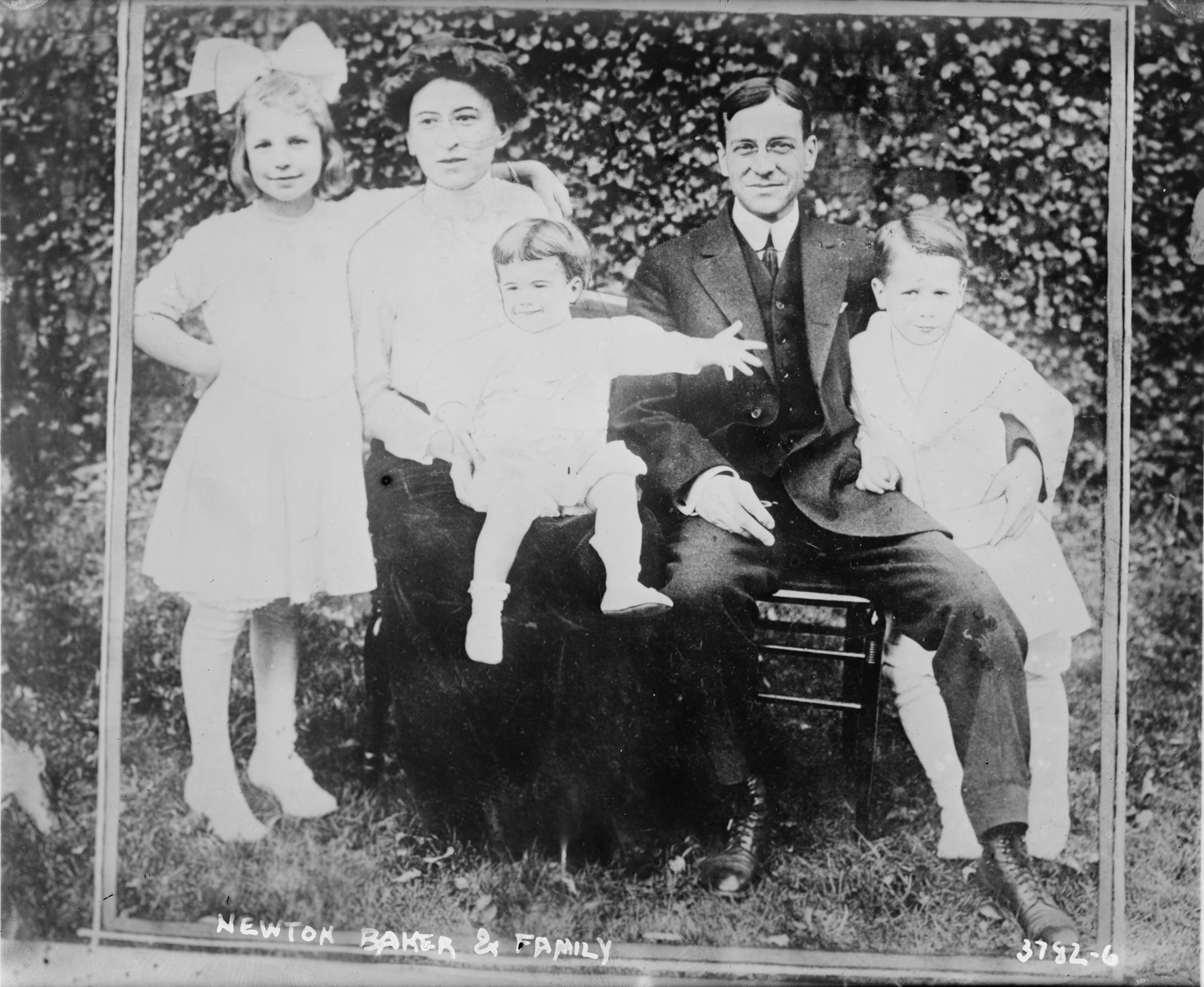 Newton Baker & family